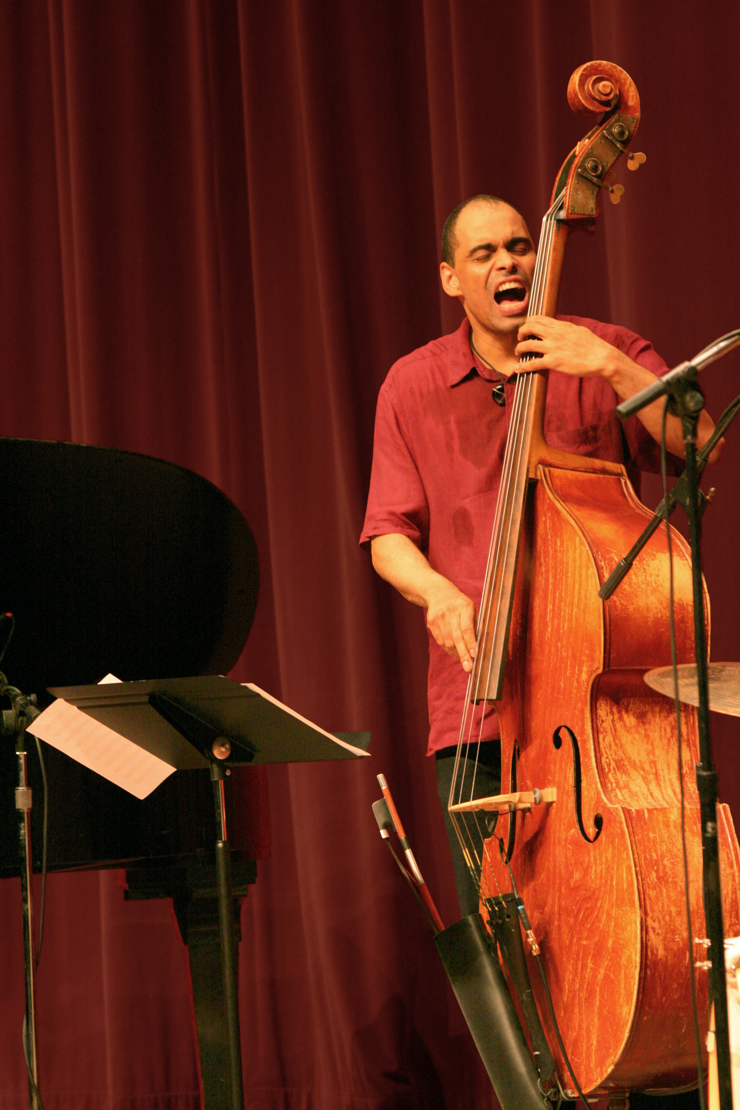 Bassist Ugonna Okegwo performing with the Tom Harrell Quintet in 2010.